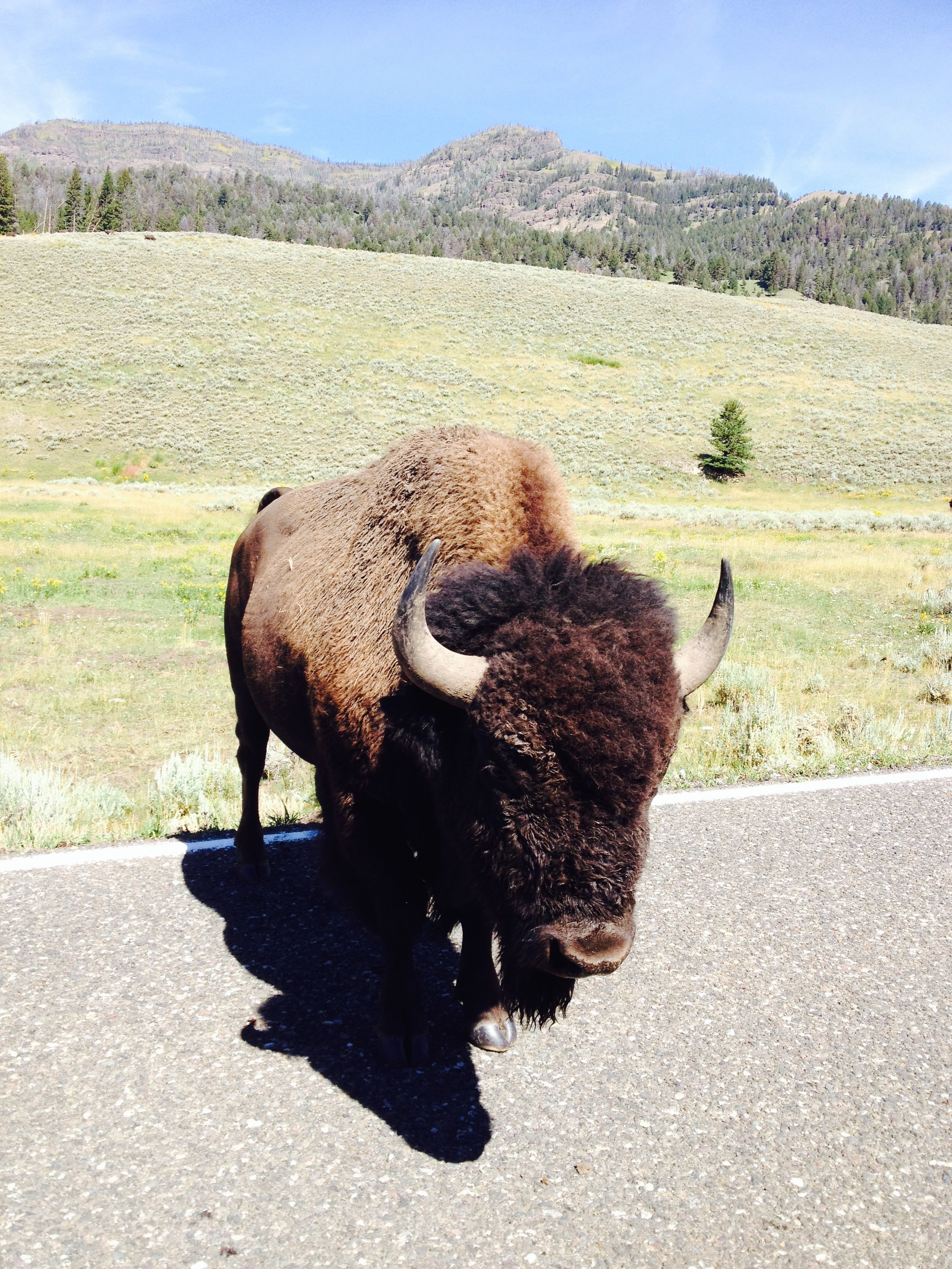 An American Bison crossing the road in Yellowstone National Park near Lamar Valley taken July 2014